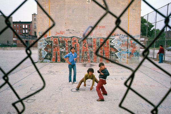 "Three boys and 'A Train' graffiti in Brooklyn's Lynch Park in New York City. The inner city today is an absolute contradiction to the main stream America of gas stations, expressways, and tract homes. It is populated by Blacks, Latins, and the white poor. Most of all the inner city environment is human beings as beautiful and threatened as the 19th century buildings." Brooklyn, New York, New York.